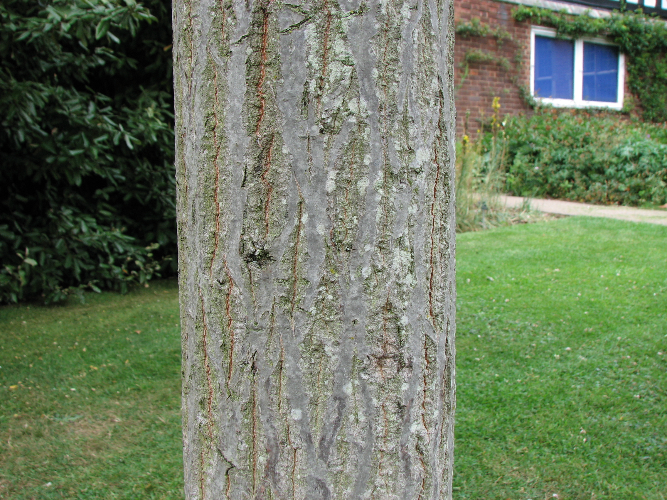 Gray budded snakebark maple (Acer rufinerve) bark